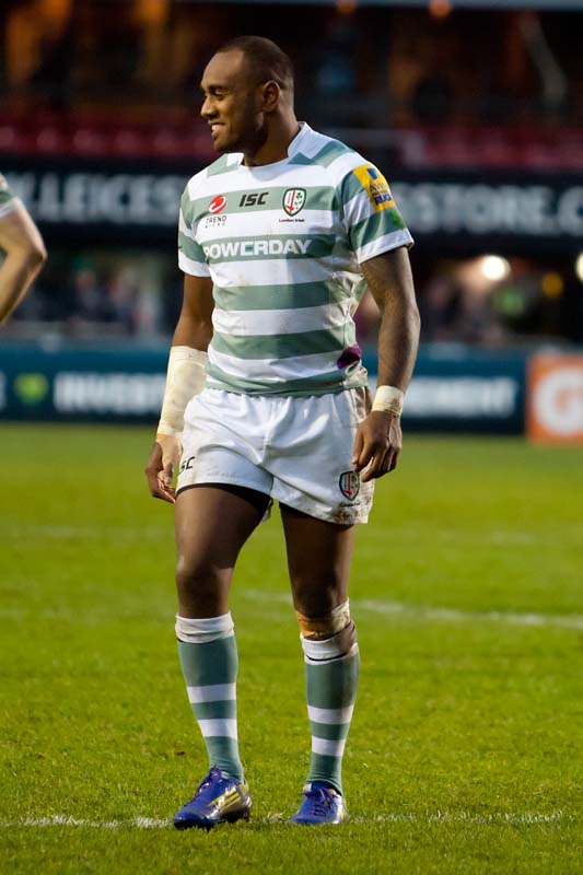 A London Irish player during an LV= Cup pool match at Welford Road, Leicester on Sunday 18th November 2012.